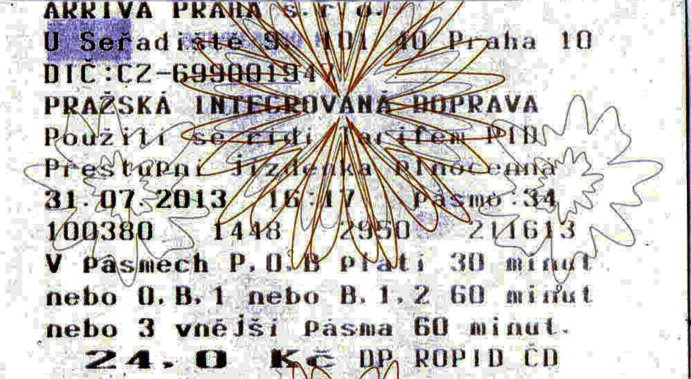 Ticket of Prague Integrated Transport.